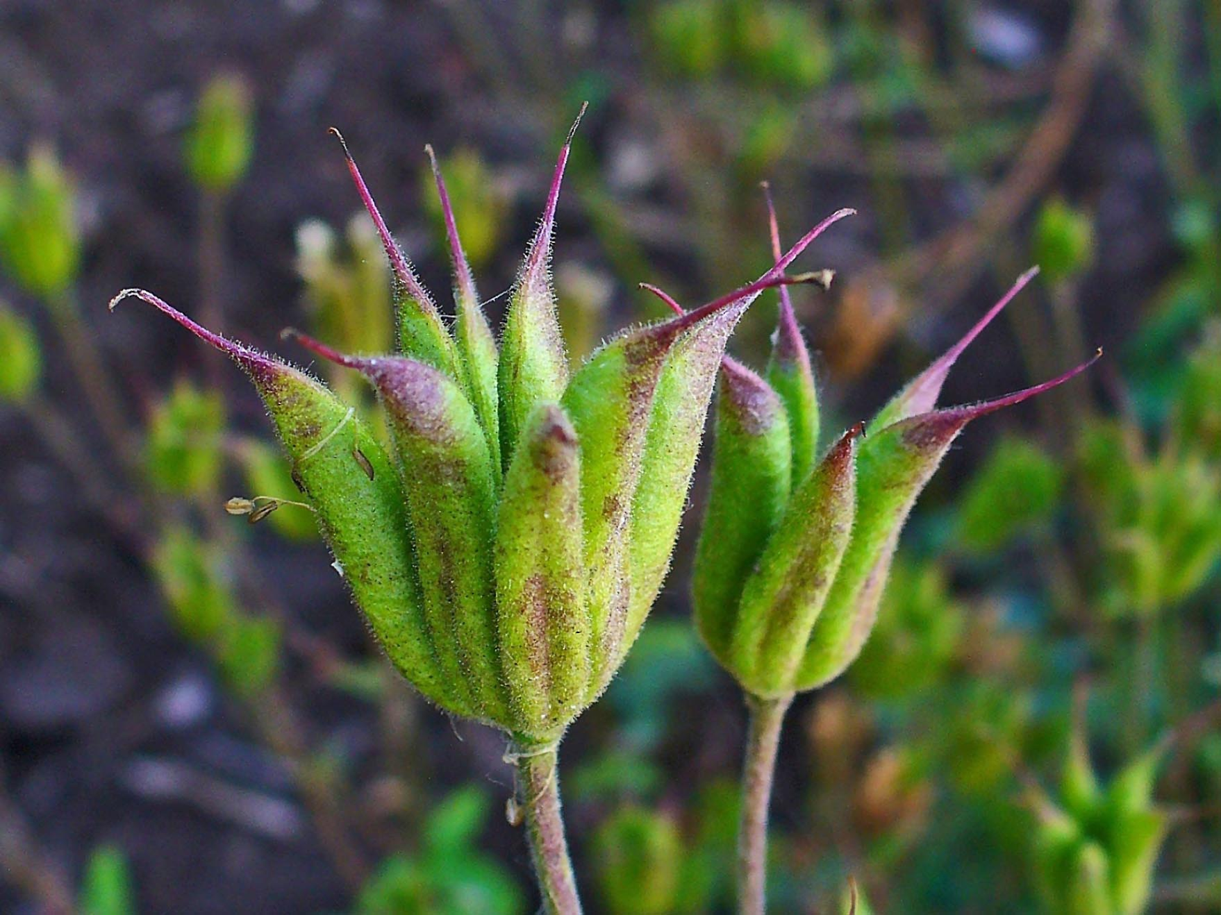 Aquilegia vulgaris, Ranunculaceae, European Columbine, Common Columbine, Granny's Nightcap, fruits. Stutensee, Germany.